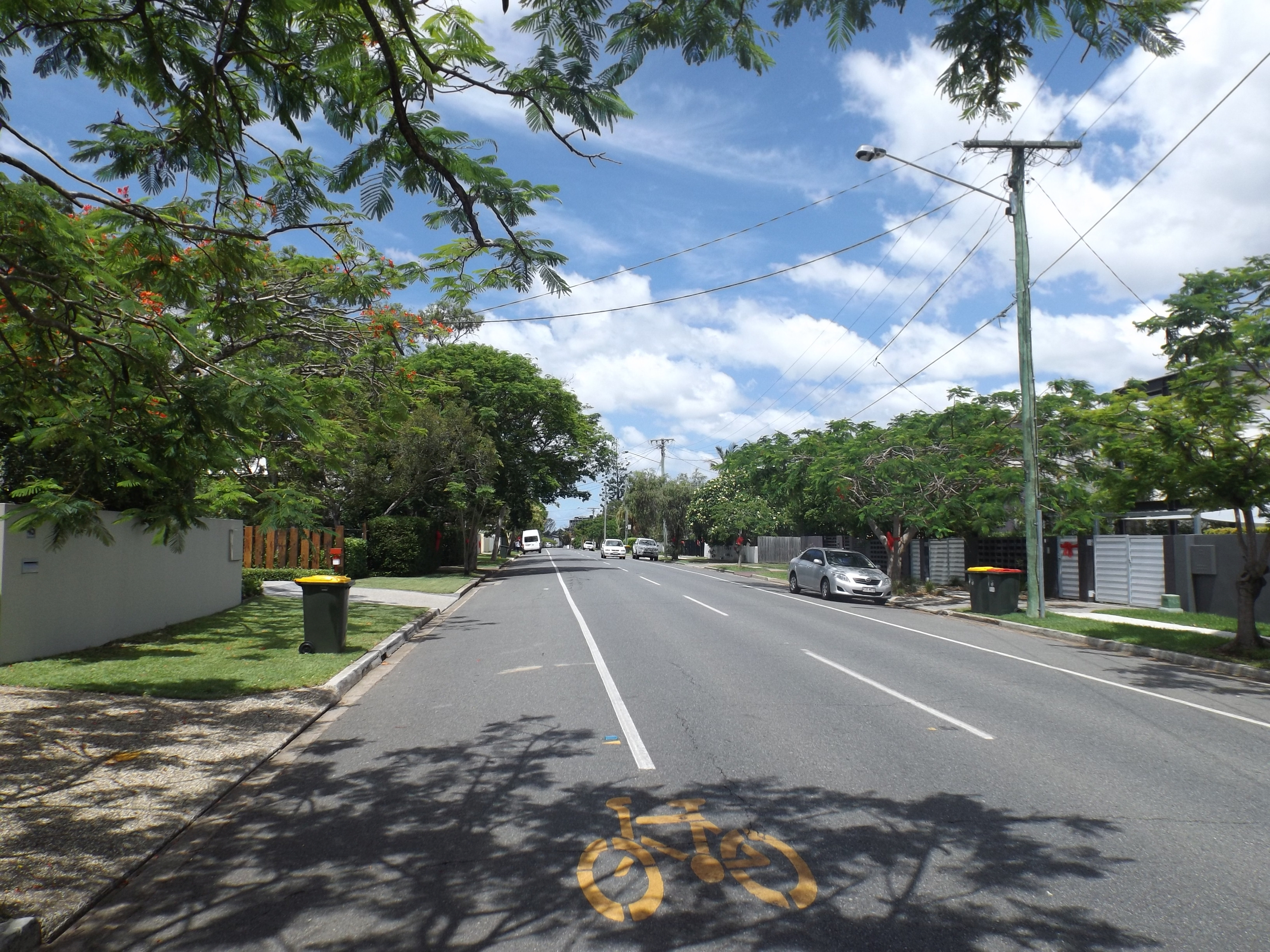 Photo of King Arthur Terrace at Tennyson, Brisbane, Queensland, Australia.